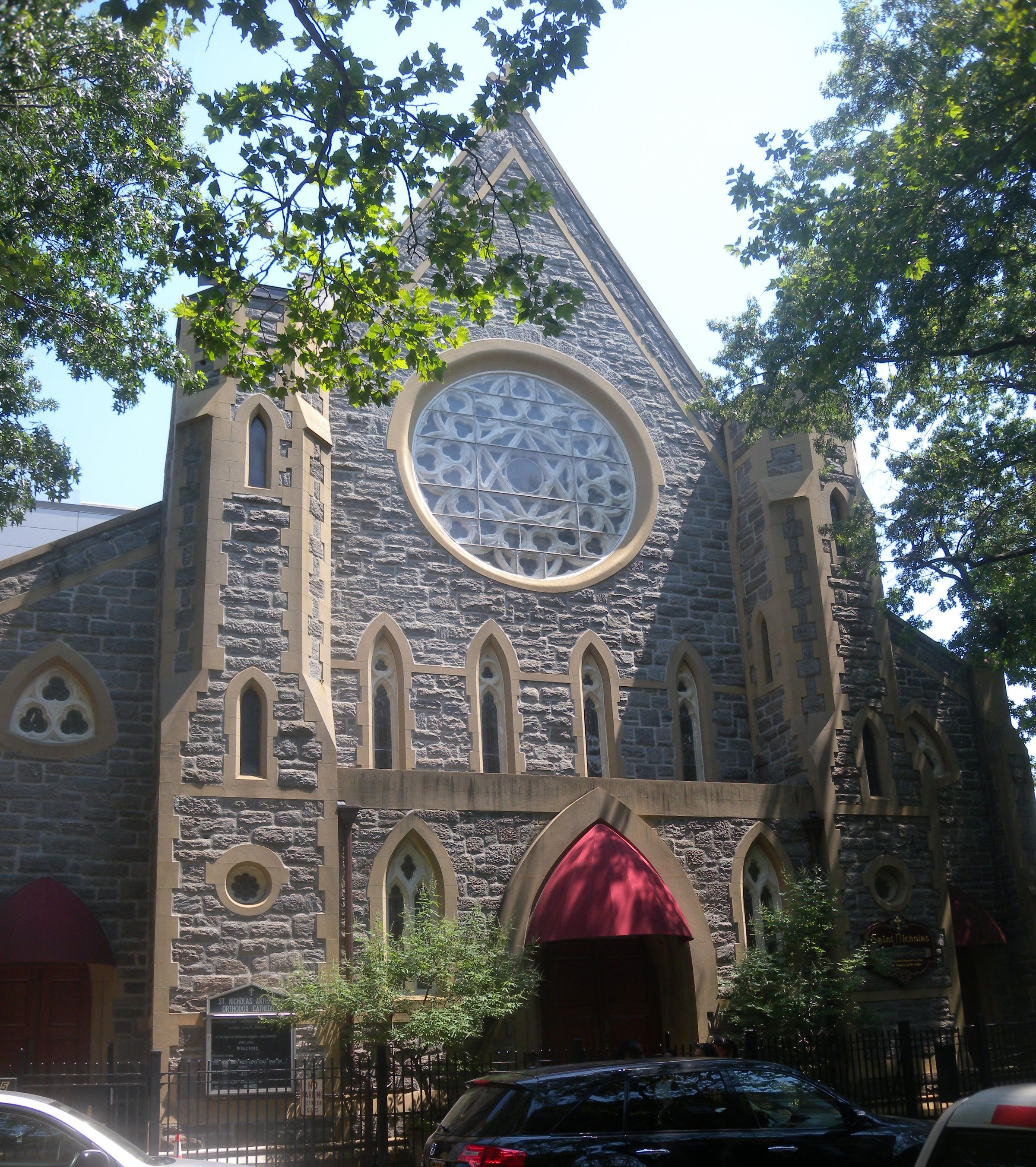 Looking north across State Street at Anitochan Cathedral on a sunny morning.